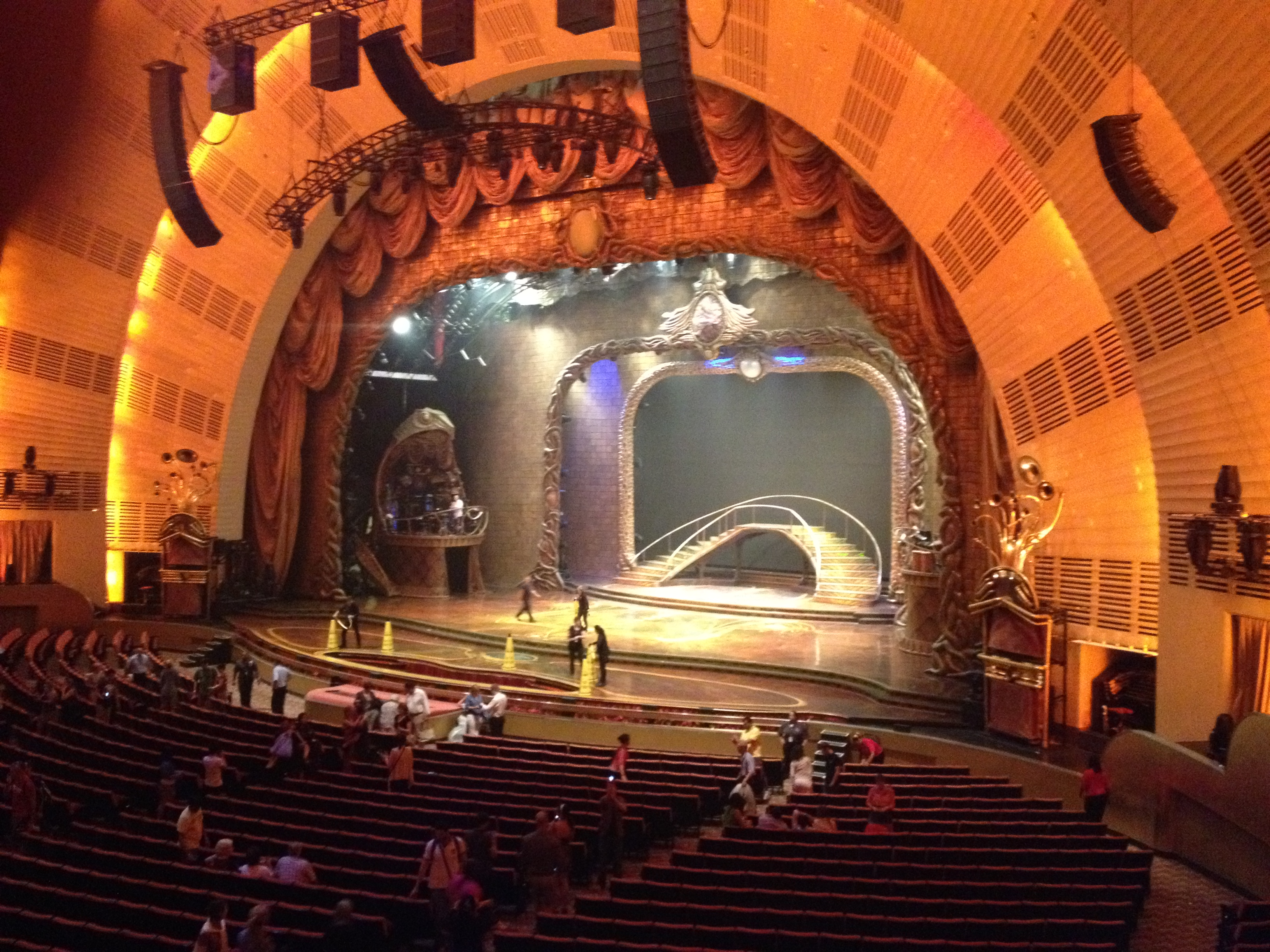 Cirque du Soleil Zarkana at Radio City Music Hall